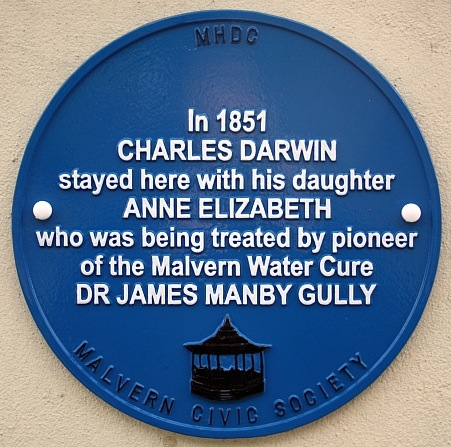 Darwin plaque, Montreal House, Malvern